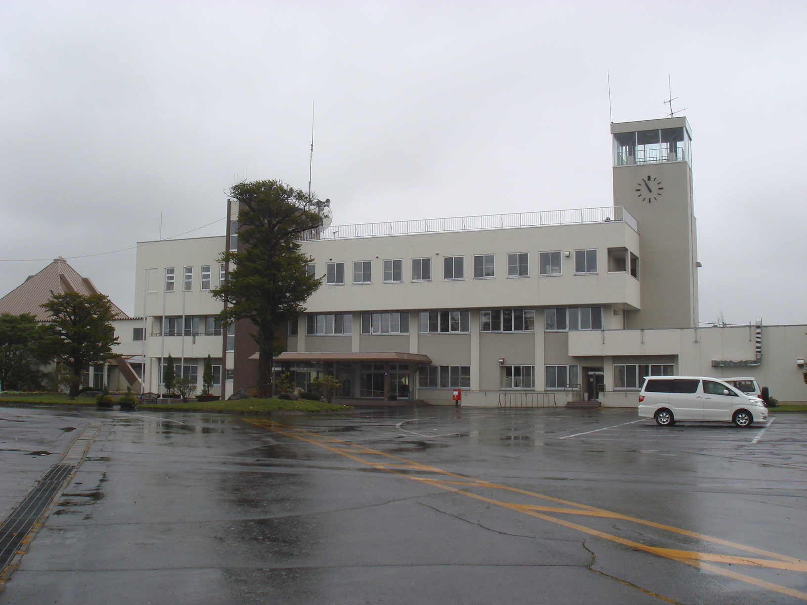 Kiyosato Town Office (Kiyosayo, Hokkaido)